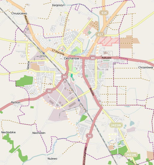 Location map of Ciechanów, Poland This map of Ciechanów was created from OpenStreetMap project data, collected by the community. This map may be incomplete, and may contain errors. Don't rely solely on it for navigation.